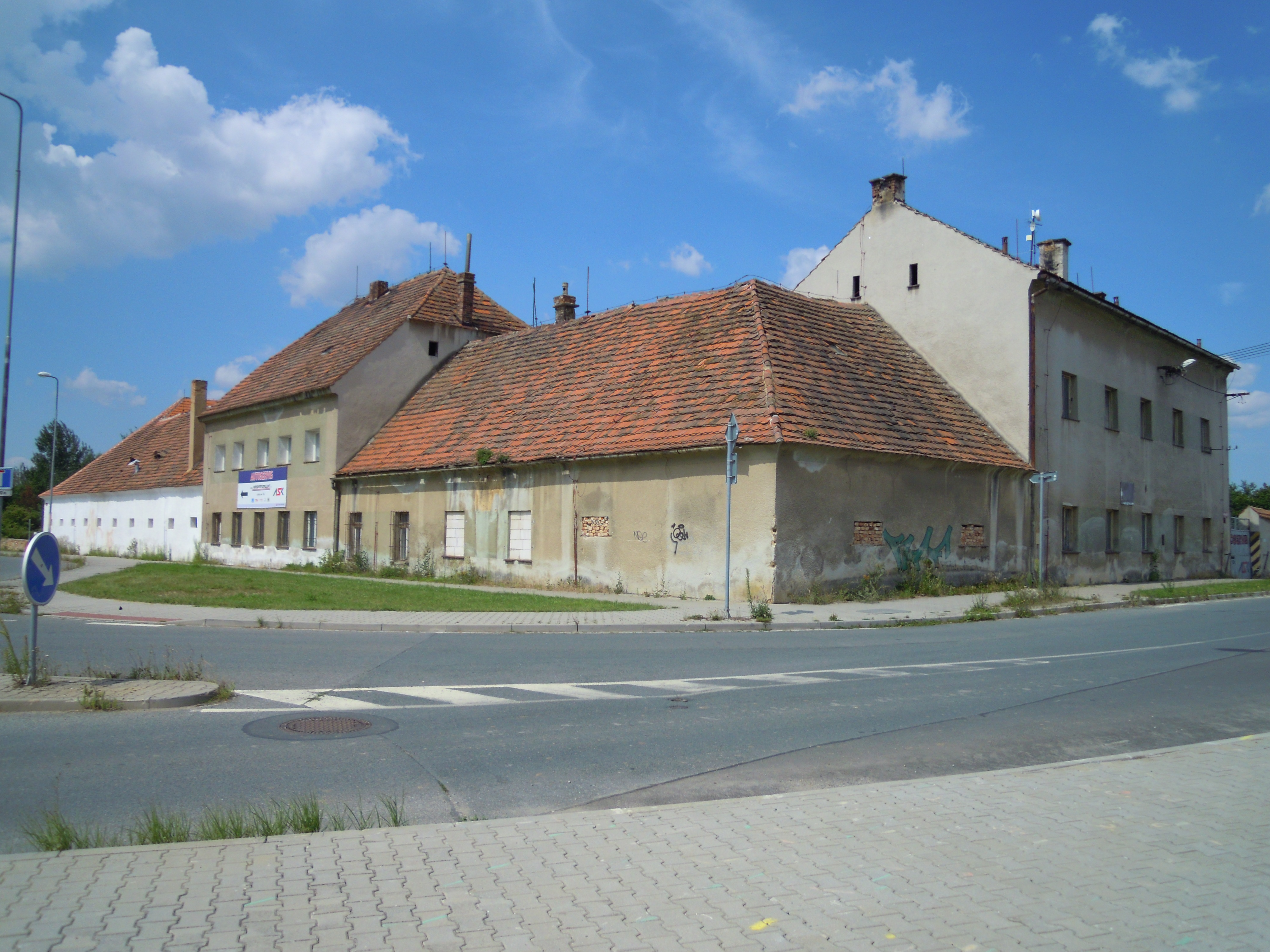 Plzeň Košutka - původní dvůr Košutka, Karlovarská / Kotíkovská ulice